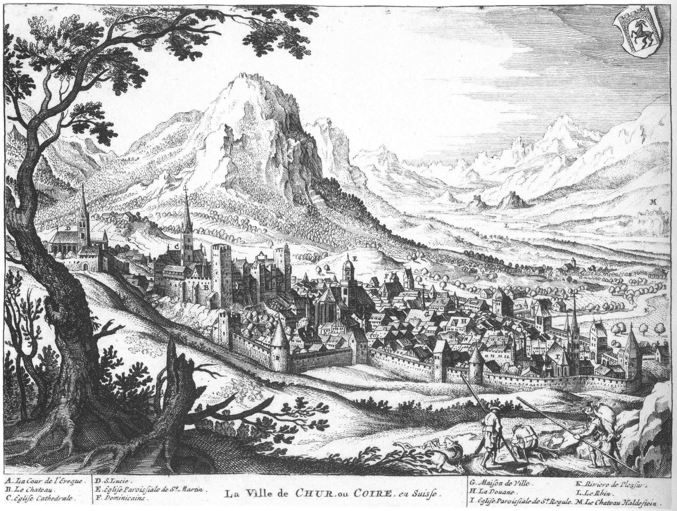 Chur, engraving by Matthäus Merian